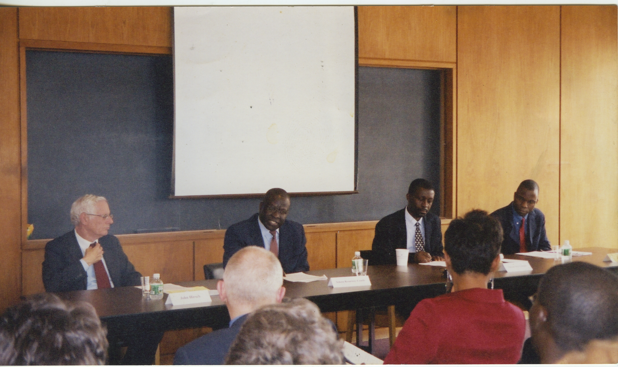 Sékou Koureissy Condé holding a conference at Columbia University